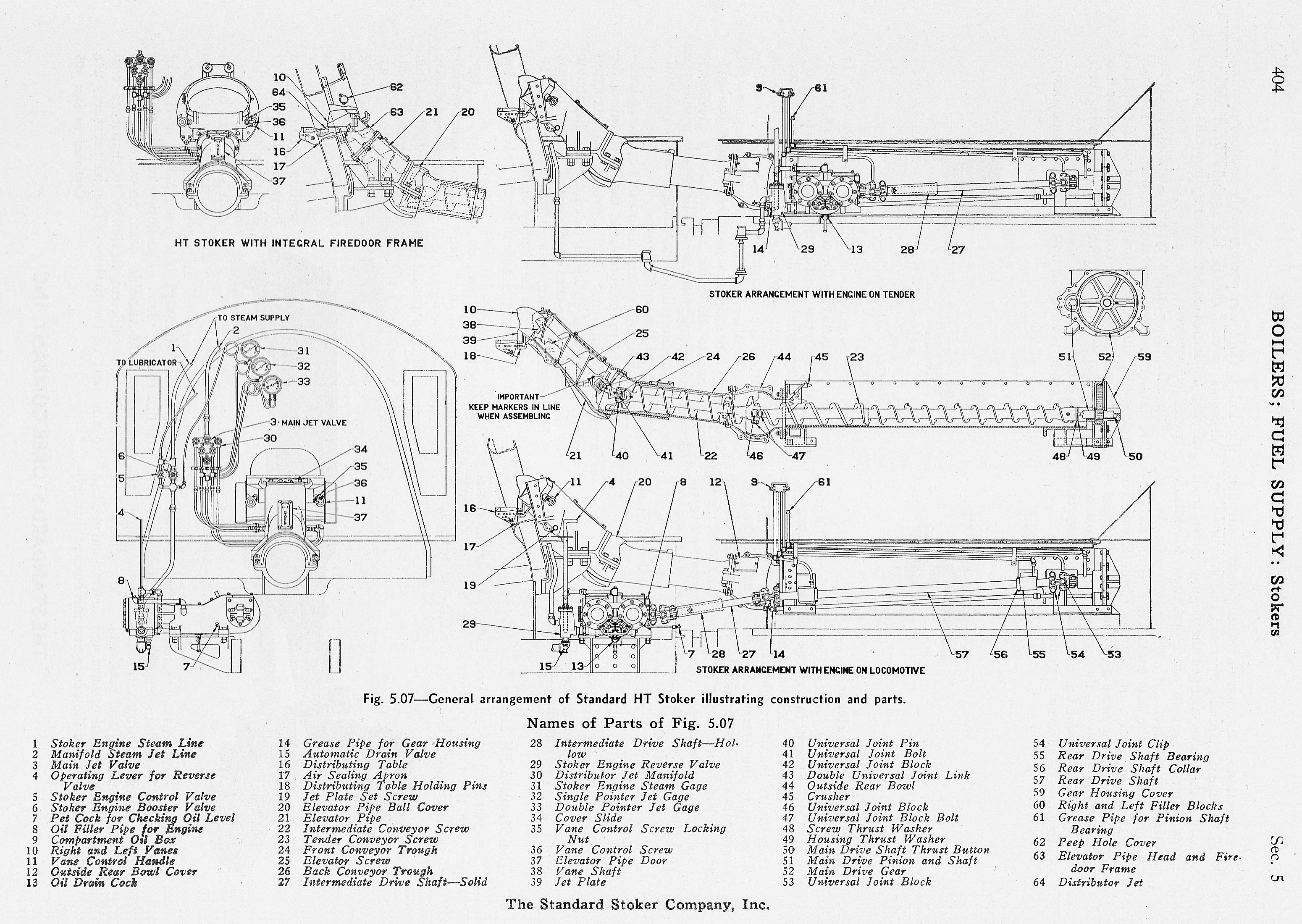 General arrangementof Standard HT Stoker illustrating construction and parts.